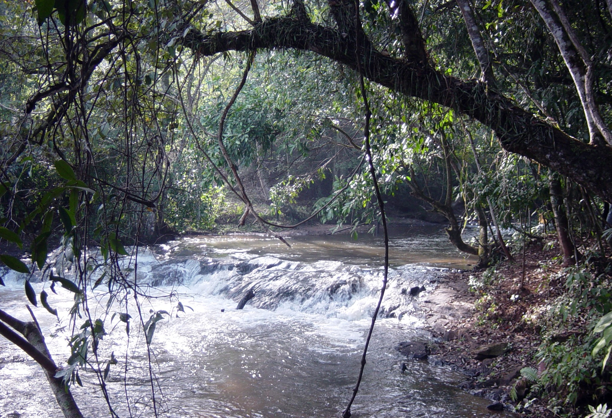 Feijão River near Itirapina, Brazil